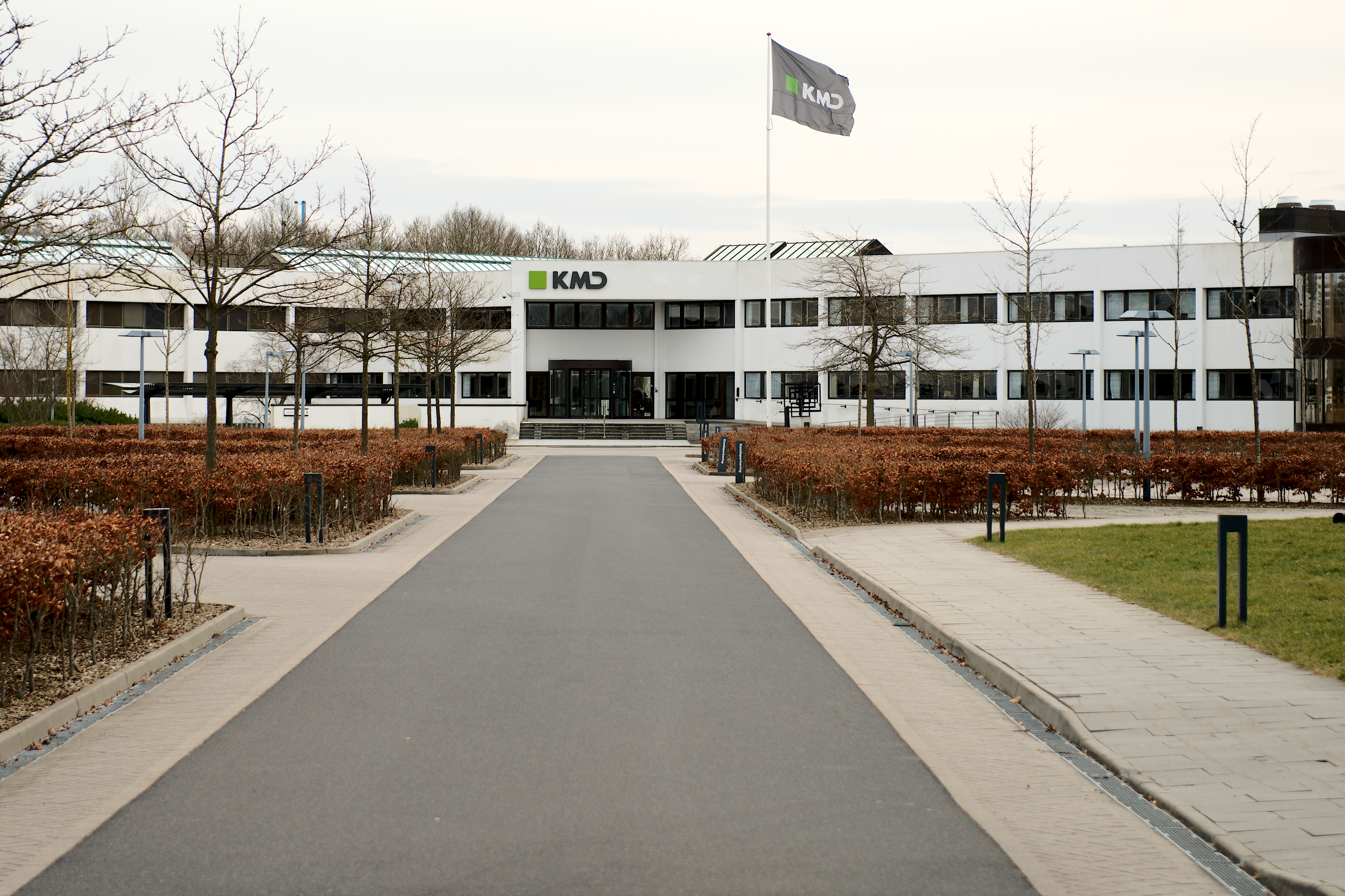 KMD office building in Odense, Denmark. Main entrance.